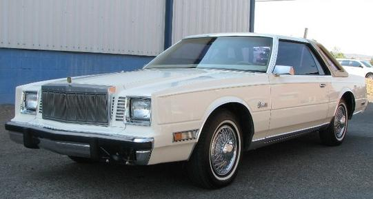 1980 Chrysler Cordoba personal luxury coupe